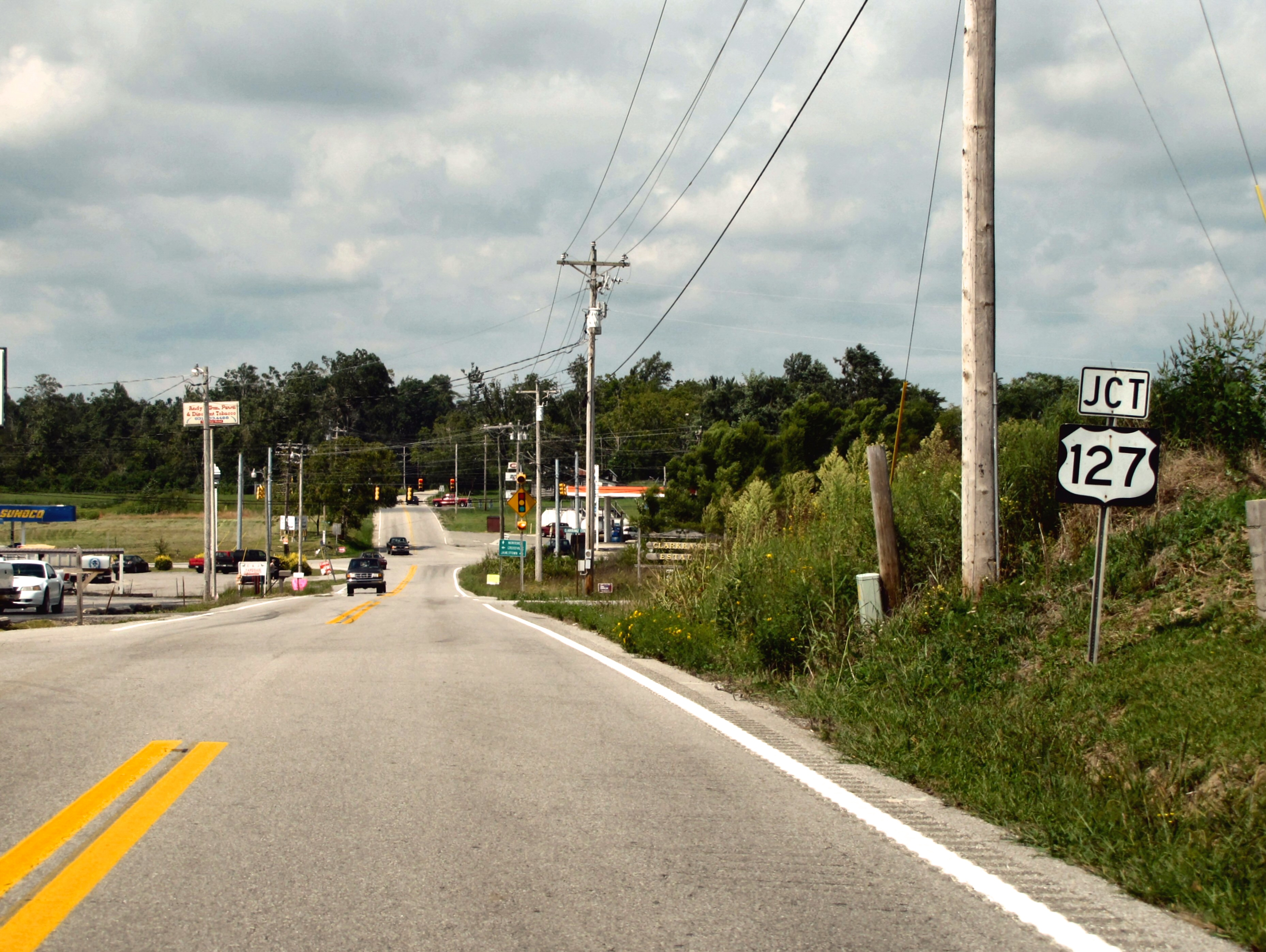 The intersection of U.S. Route 127 and Tennessee State Route 62 in the Clarkrange community of Fentress County, Tennessee, United States.